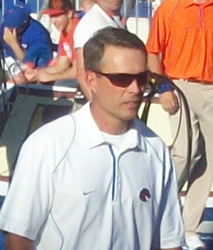 Boise State head football coach Chris Petersen during warmups of their game vs Oregon State on September 25, 2010 at Bronco Stadium in Boise, Idaho.